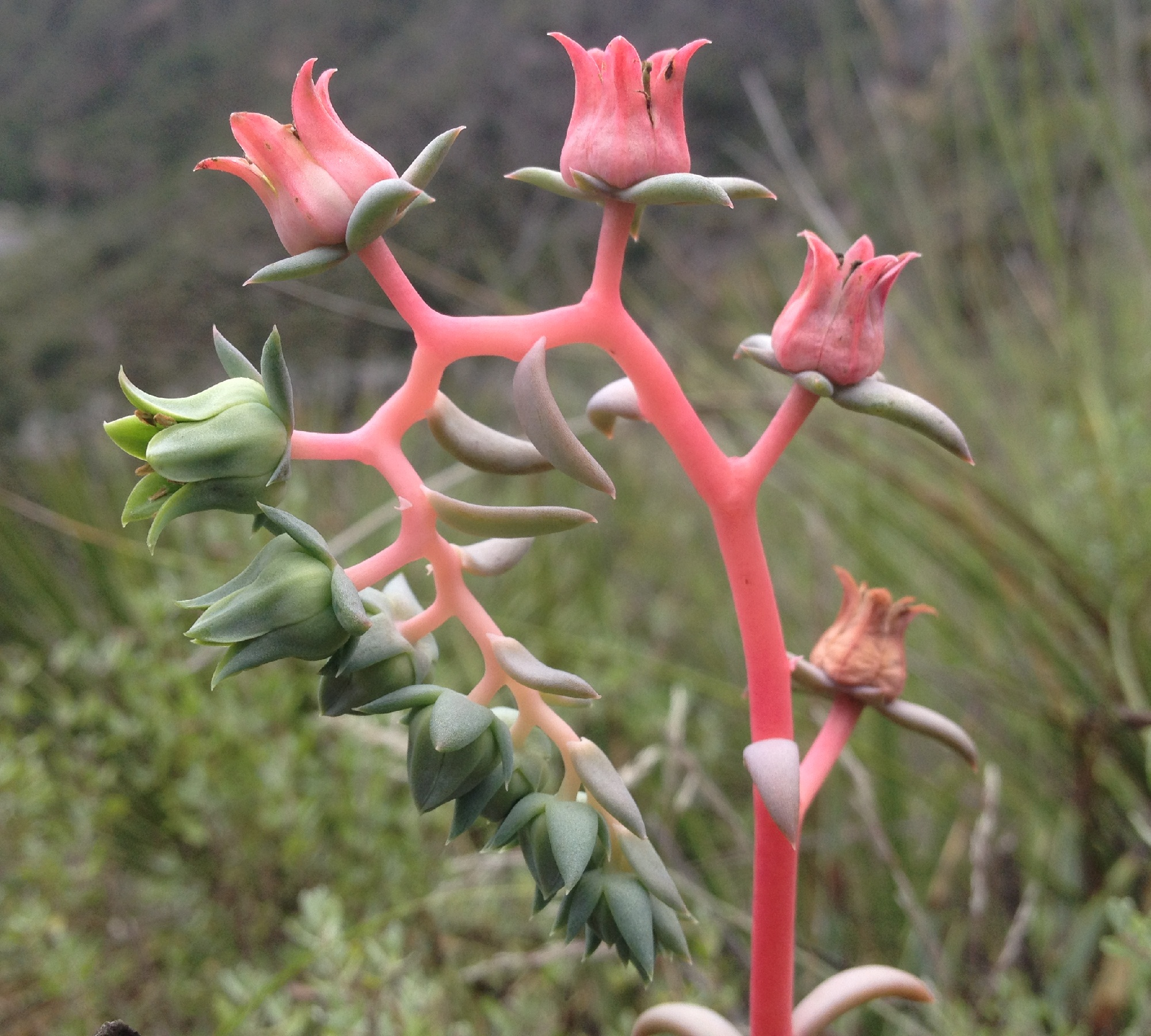 A view of the inflorescence of Echeveria heterosepala (Crassulaceae), a succulent plant endemic to the Mexican states of Oaxaca, Puebla and Veracruz. This photo was taken at the slopes of the Atexcac maar in Guadalupe Victoria, Puebla. The picture was also uploaded to iNaturalist